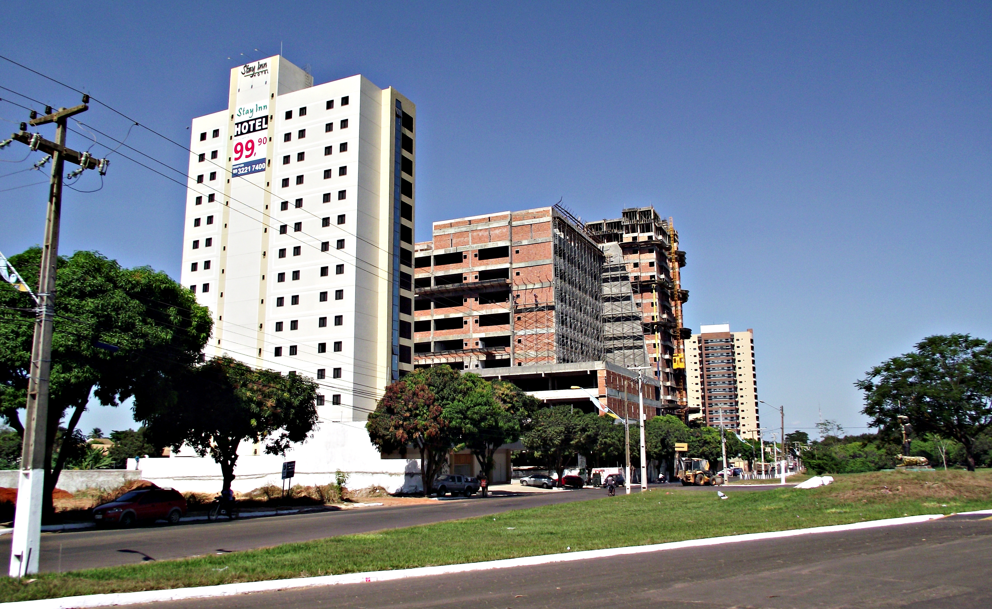 Bernardo Sayão Avenue. Imperatriz Maranhão.